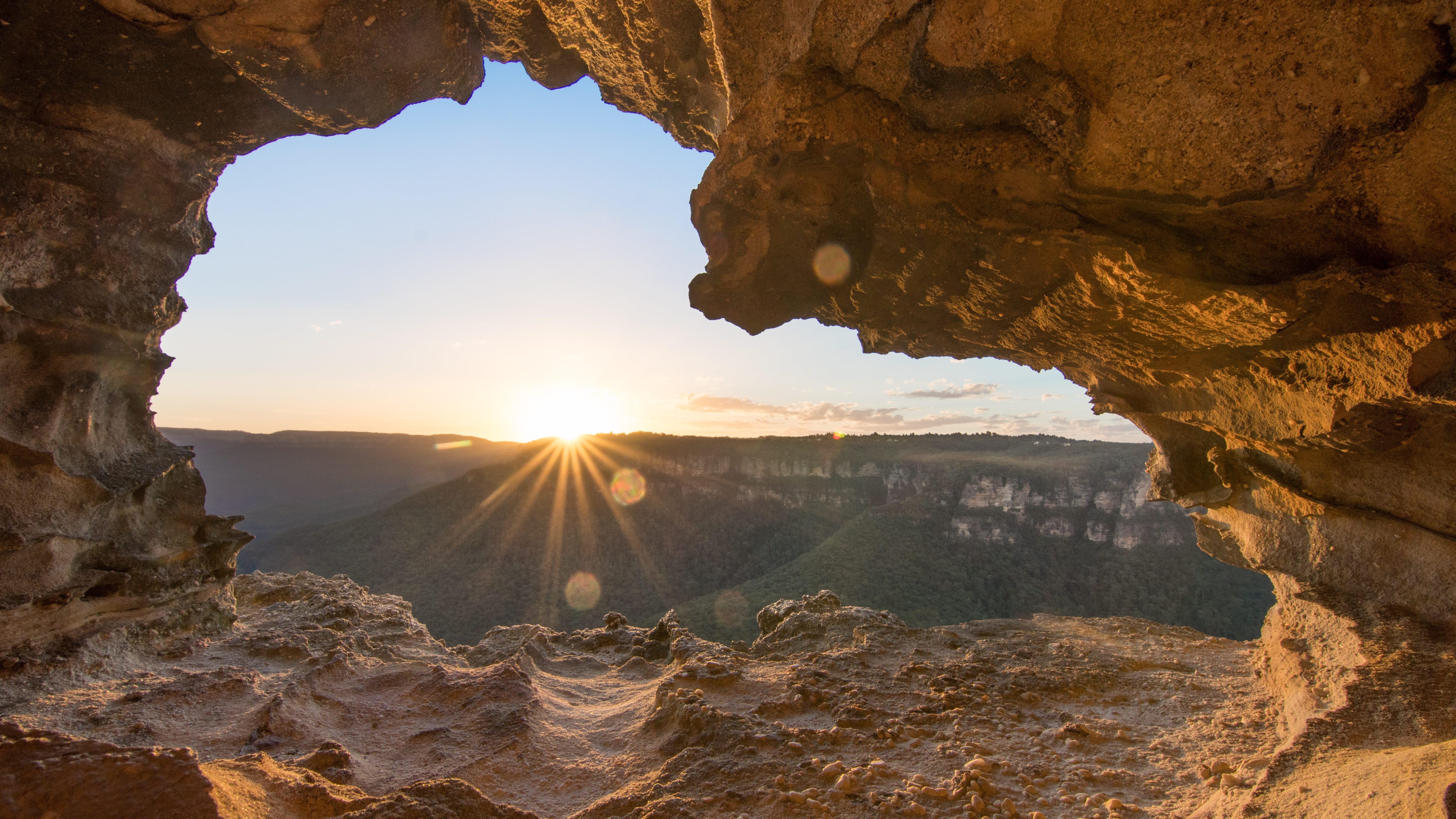 Landscape in the Blue Mountains National Park, Australia.